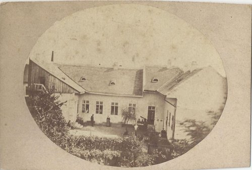 The first building of Bethesda Hospital at 5 Rózsa street